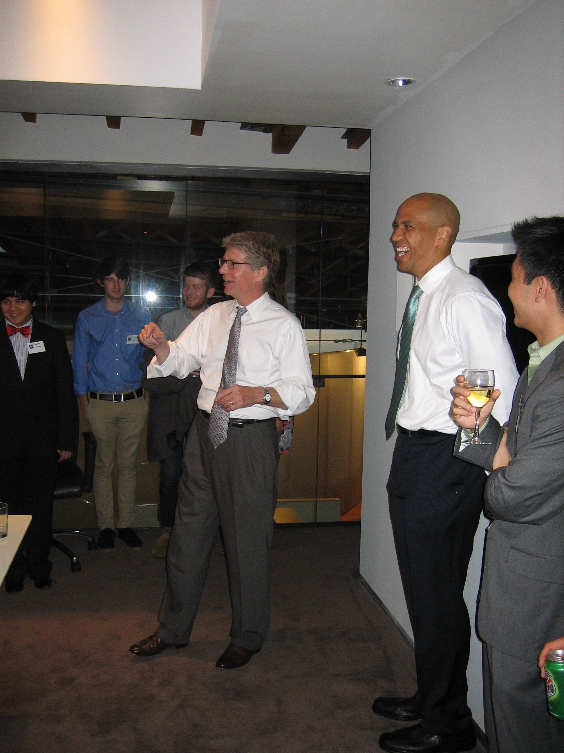 Cy Vance at a fundraiser with Cory Booker